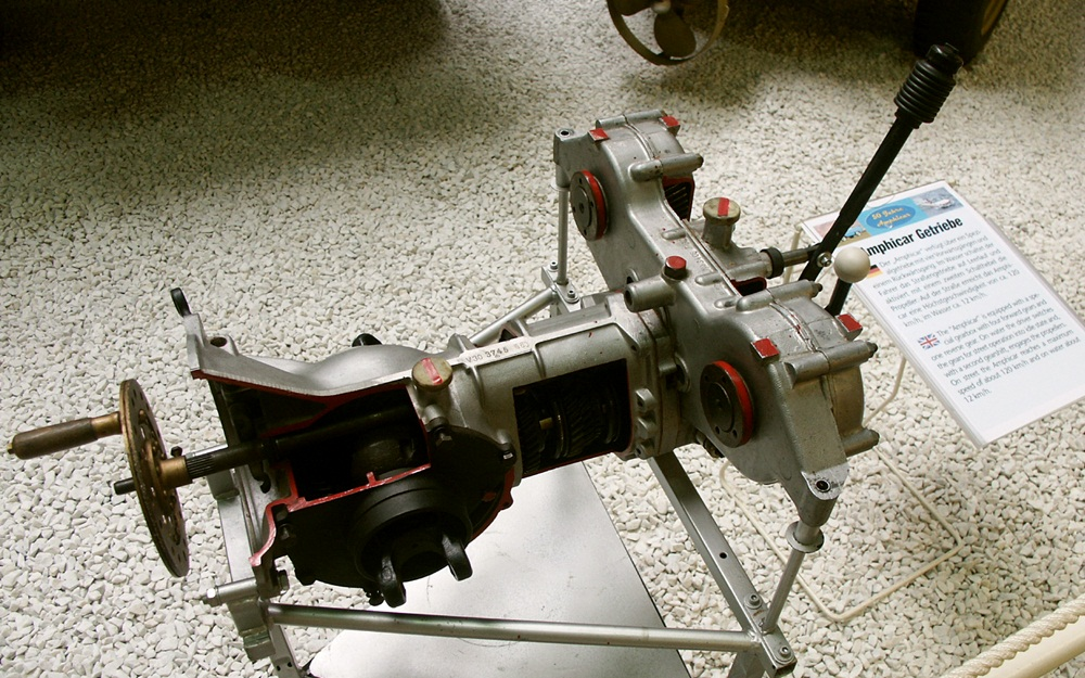 Amphicar gearbox cutaway. It had 4 forward going gears and one reverse, with an option to shift power to the propellers mounted on to the back of the vehicle while on water.